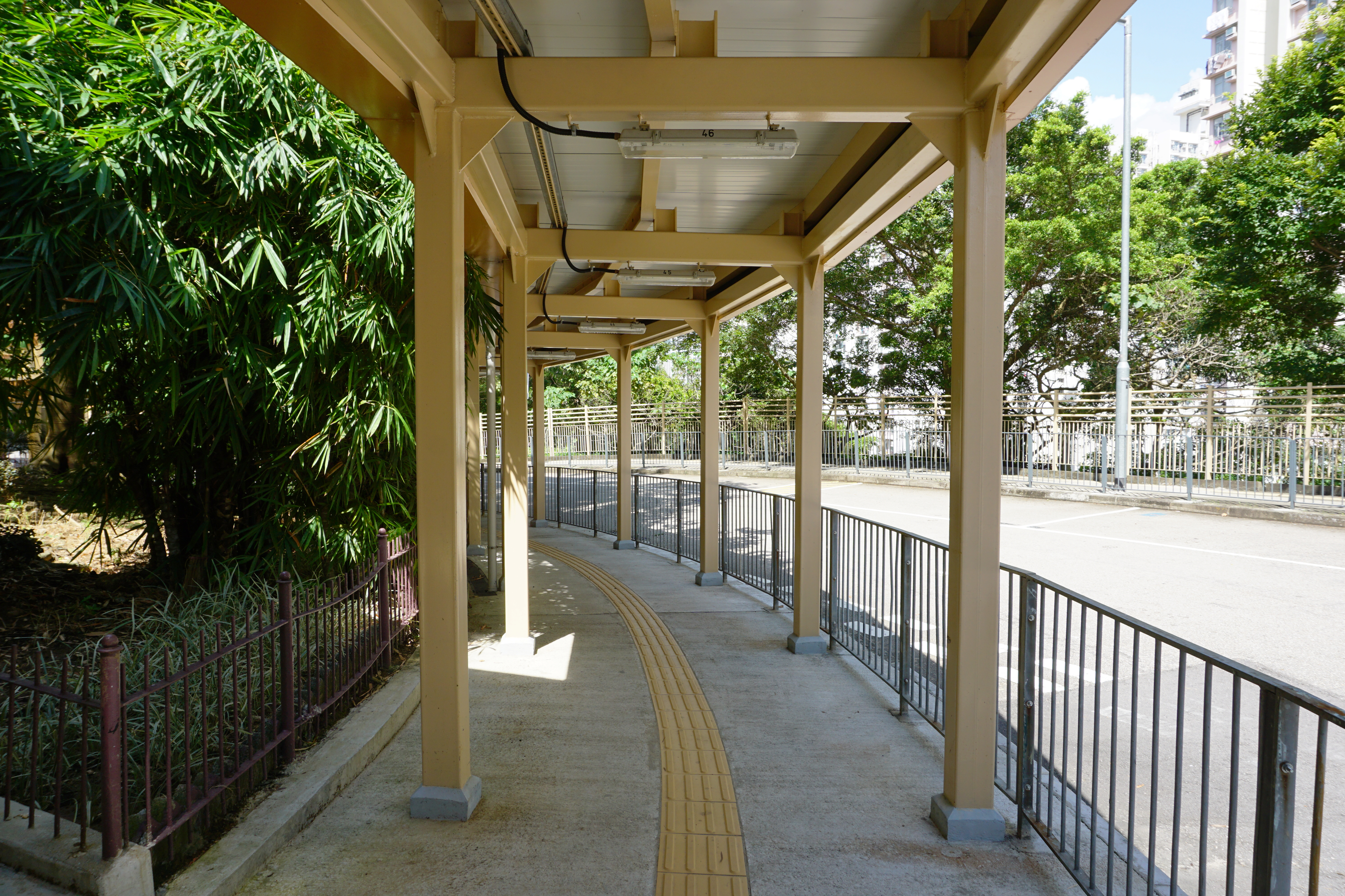 Kwai Shing West Estate in Kwai Shing, Hong Kong.